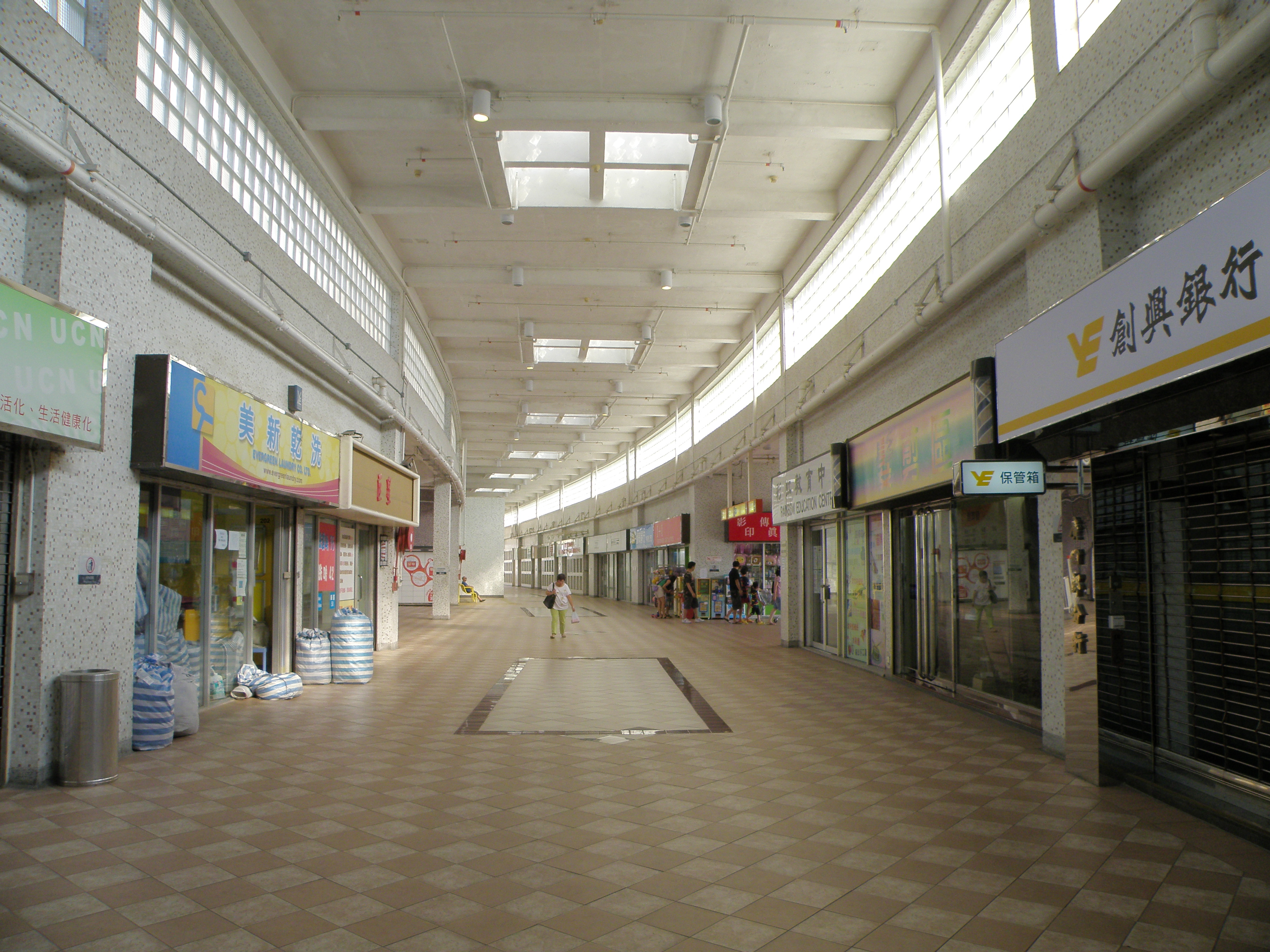 Kwong Tin Shopping Centre in Lam Tin, Hong Kong.